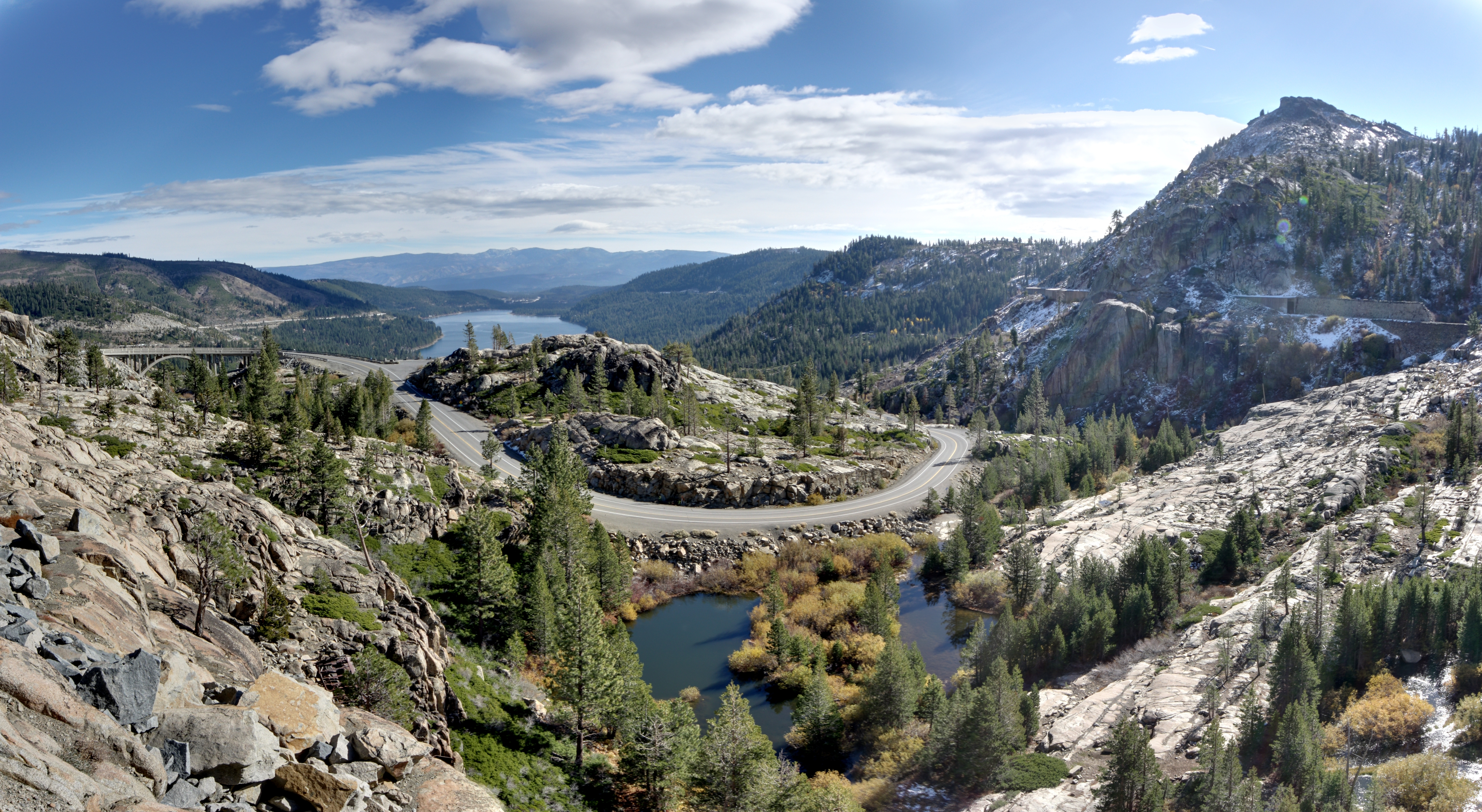 View of Donner Memorial State Park from the Old Donner Pass Highway near Truckee, CA. US National Historic Landmark and California Historical Landmark #134 (Nevada County).